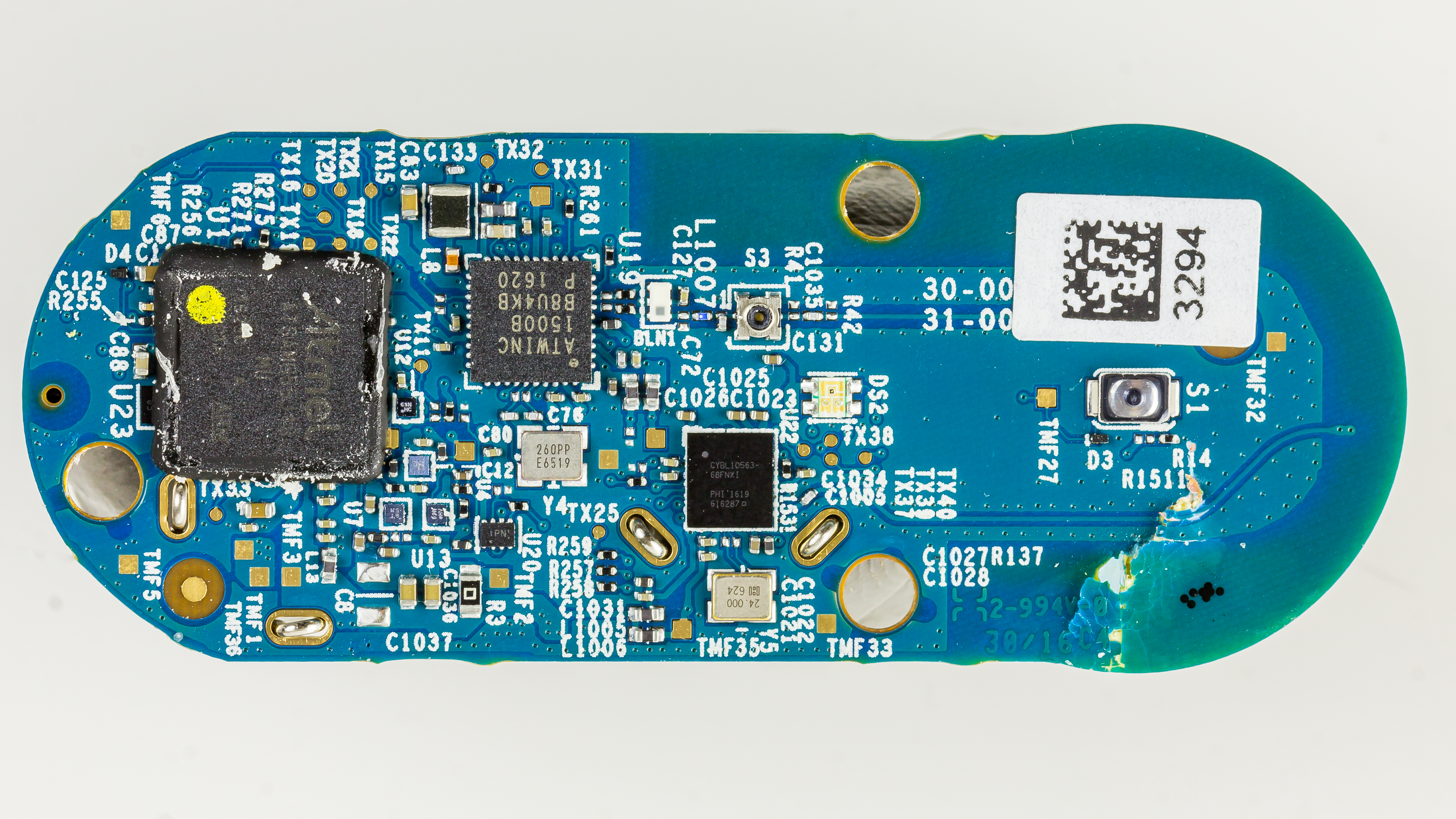 Amazon Dash Button Somat - cover removed. Powered by a Duracell Ultra battery, size AAA